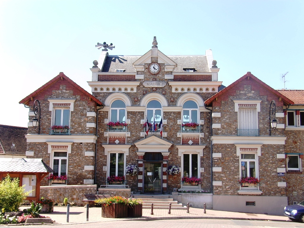 Champlan TownHall